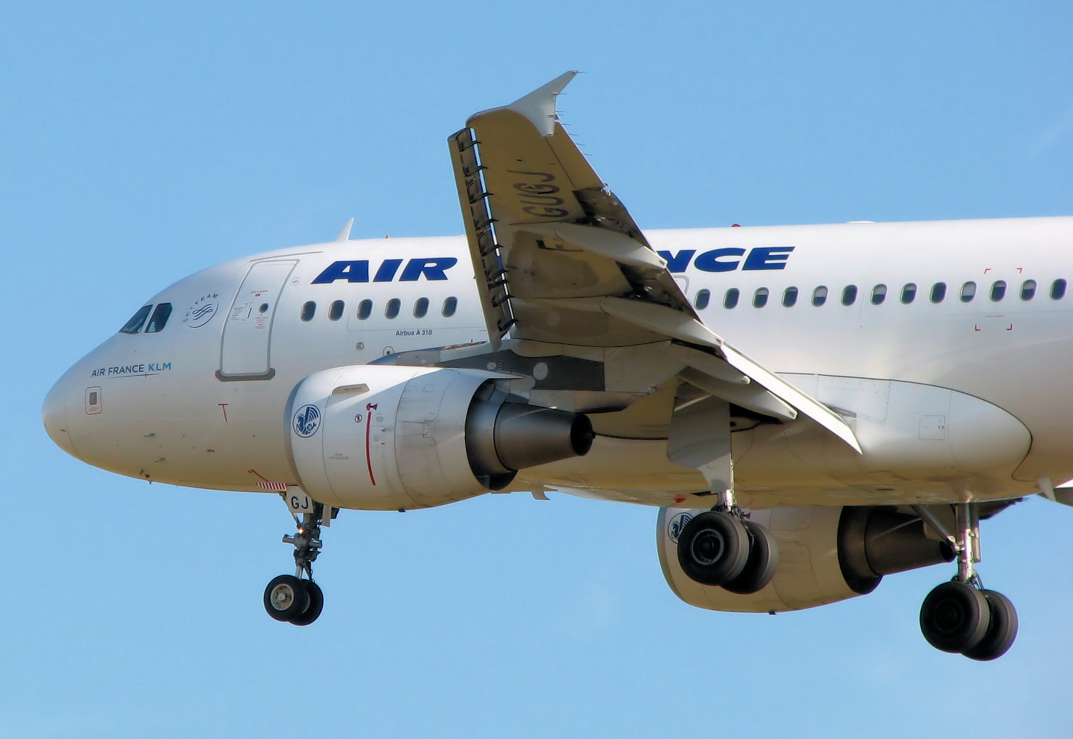 Air France Airbus A318-100 (F-GUGJ) lands at London Heathrow Airport, England.